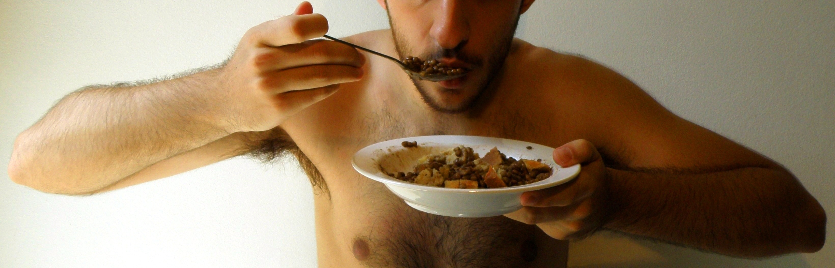 The lentil eater, a man that is eating a soup of lentils and pieces of bread.